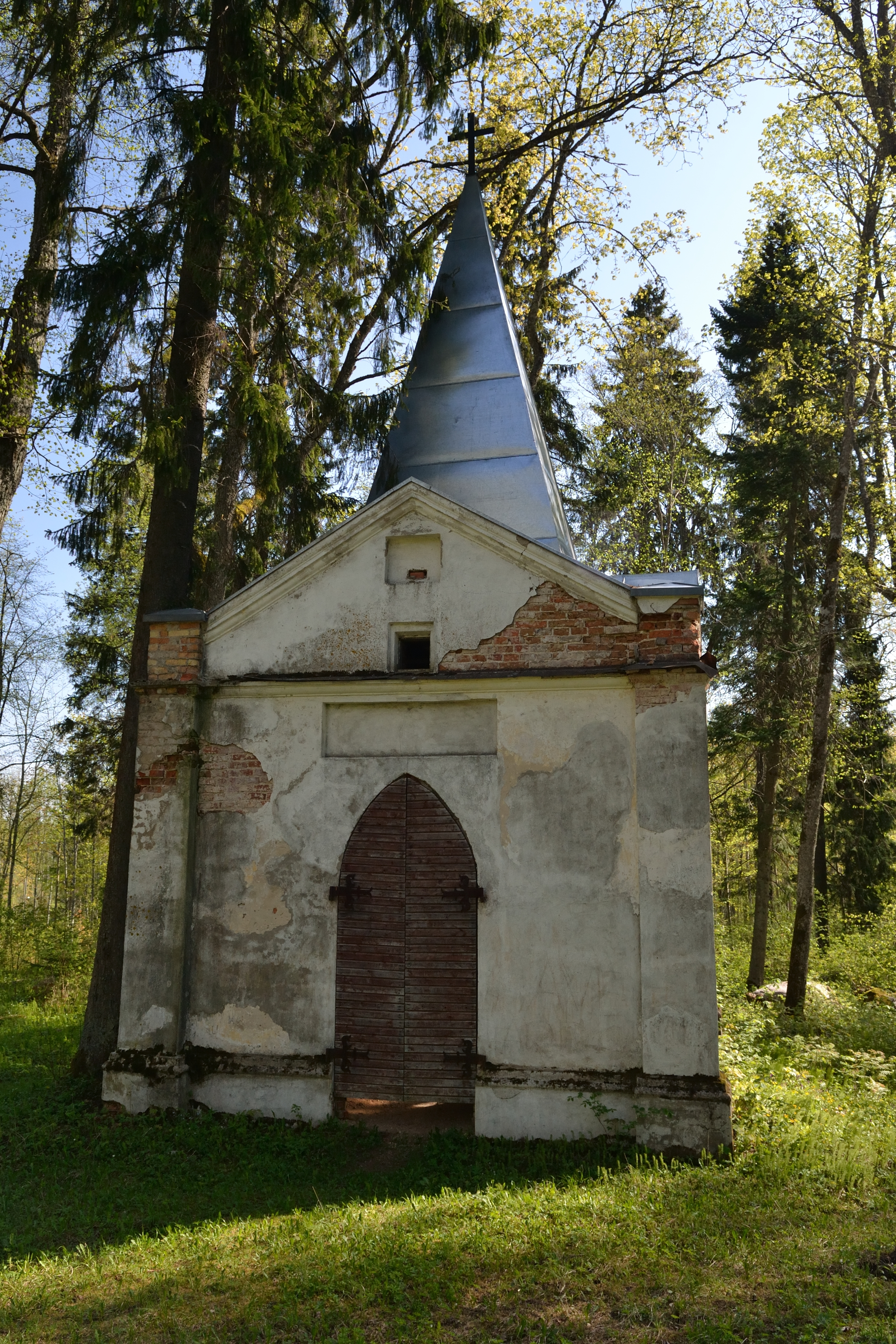 Kuremaa manor chapel